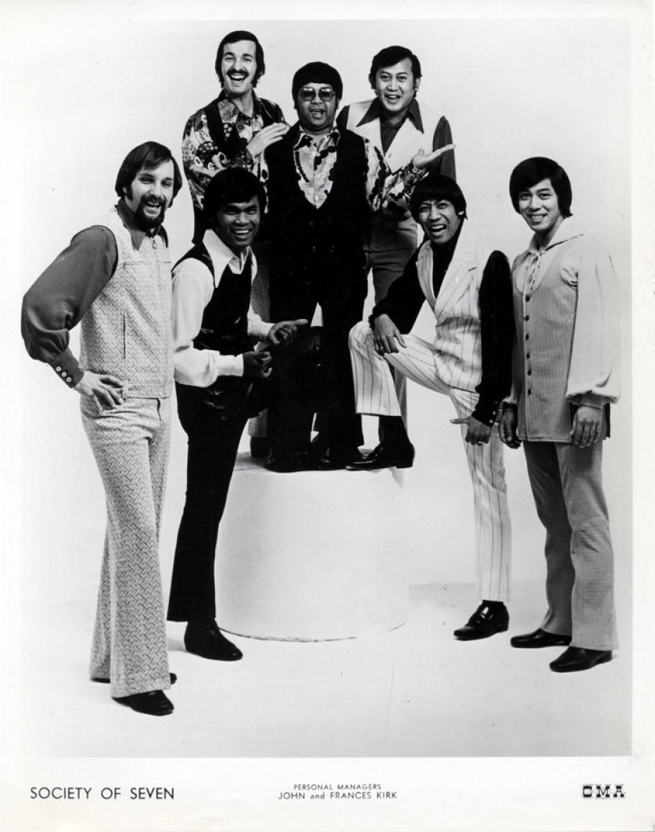 The original members of the Hawaii-based Society of Seven from its inception in 1969 pose in a promotional photograph.